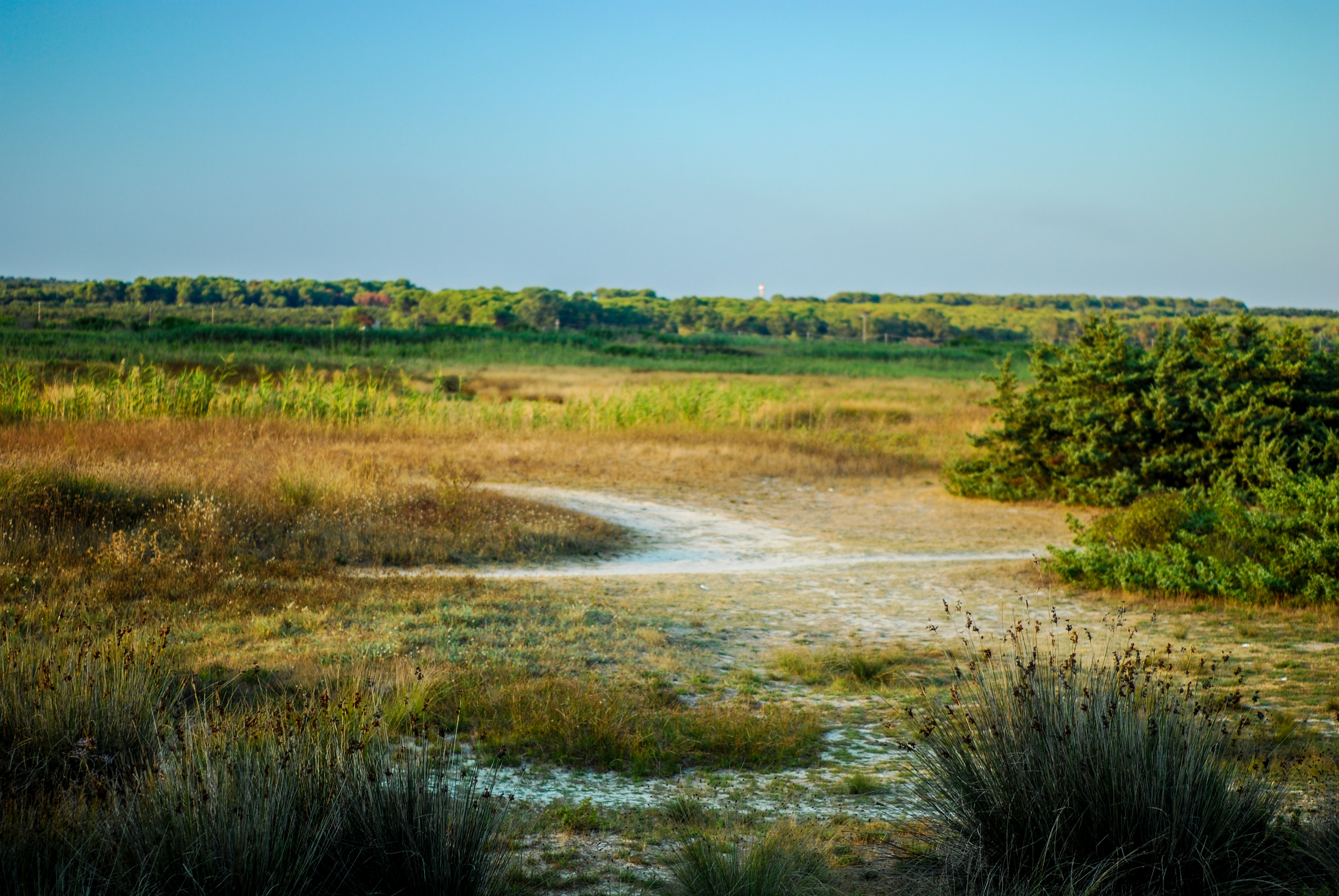 natural park Palude Del Conte